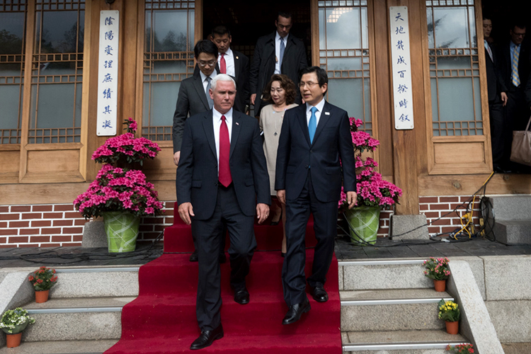 Vice President Mike Pence departs the Blue House “Cheongwadae” in Seoul, South Korea, following a working luncheon with Acting Republic of Korea President Hwang Kyo-ahn, Monday, April 17, 2017. (Official White House Photo by Myles Cullen)